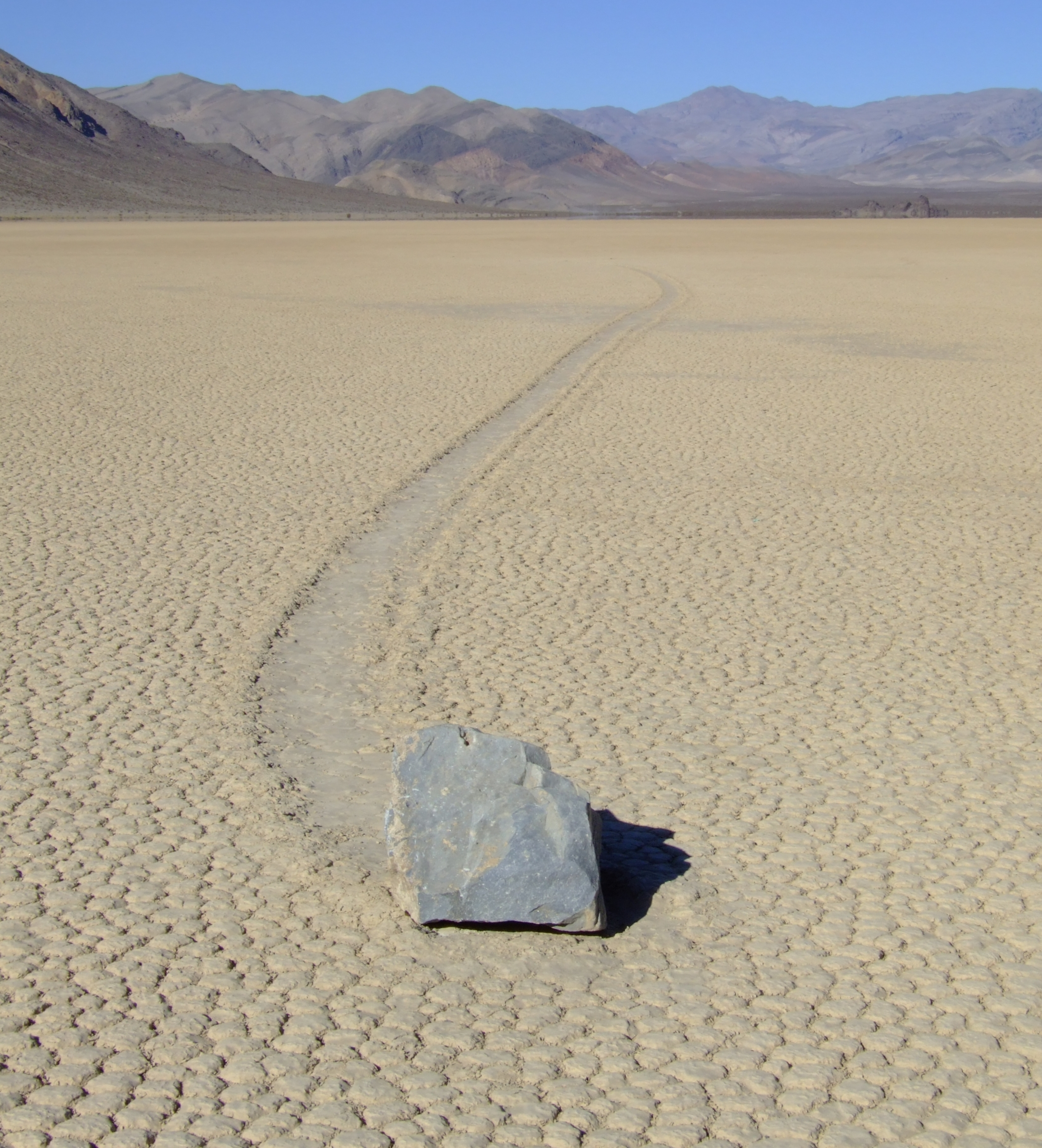 Landscape image; Location: Racetrack Playa in Death Valley National Park; orientation of this view is south-to-north from near the southern edge of the playa. The Grandstand is visible on the horizon a little to the right of the center of the image, about 2 miles distant from the camera. Note the track through the dried mud behind the boulder. These tracks are left when winter storms deposit an inch or two of rain water on the surface of the playa, which consists of extremely fine grained, impermeable clay that becomes very slippery when wet. This water can freeze overnight into sheets of ice with the rocks locked into them, with a thin layer of liquid water trapped between the ice and the ground surface; if a windstorm then occurs, with speeds above about 50 mph, the ice can be moved by the wind, dragging the rocks along with it, which then gouge the tracks through the mud. The curvature, and abrupt changes in direction of the tracks, reflects changes in speed and direction of the wind, and collisions between different slabs of ice that deflect them, while the ice sheet was being pushed along. The rocks originate in the mountains surrounding The Racetrack, most of them from a specific steep bluff on the south edge of the playa, and there are usually several hundred scattered around at any given time, ranging in size from gravel to boulders a half-meter across that can weigh 300 kg or more. The cause of the movement of these rocks was a mystery for many decades until it was finally observed and photographed by eyewitnesses Richard and James Norris on December 21, 2013 [